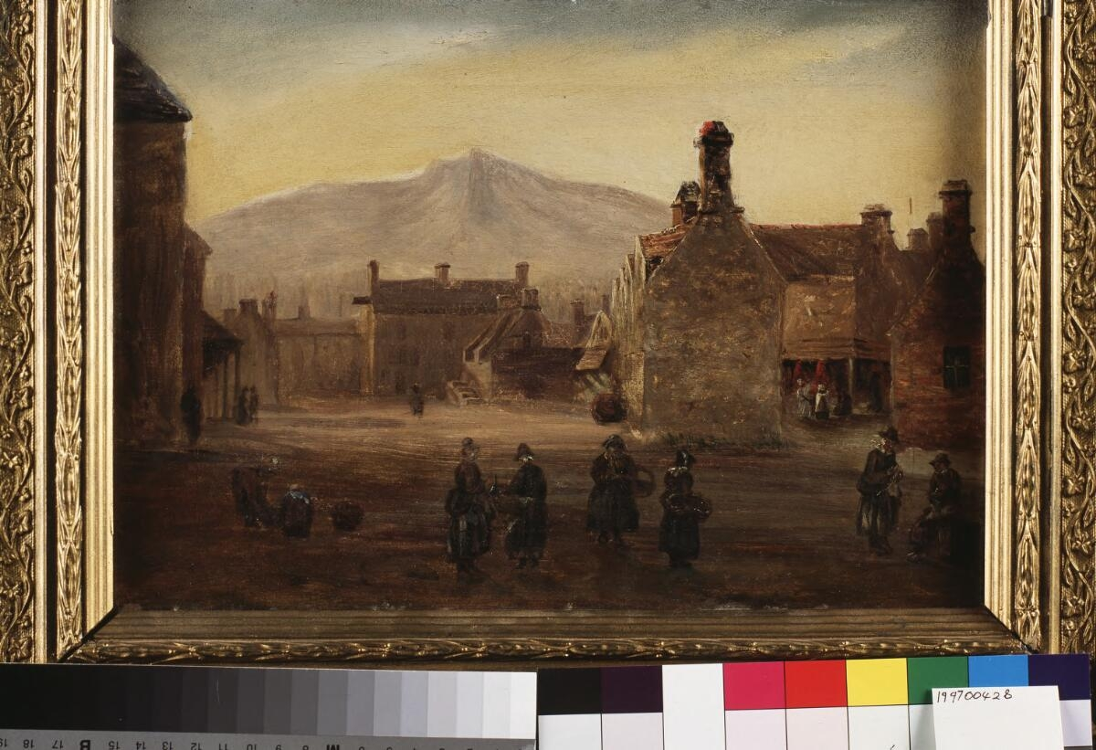 A painting from the Framed Works of Art collection at the National Library of wales.